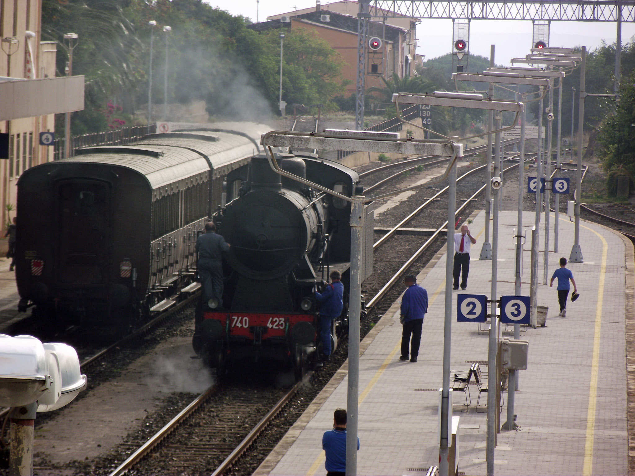 Steam locomotive of FS group 740 number 423 in Iglesias, Sardinia, Italy